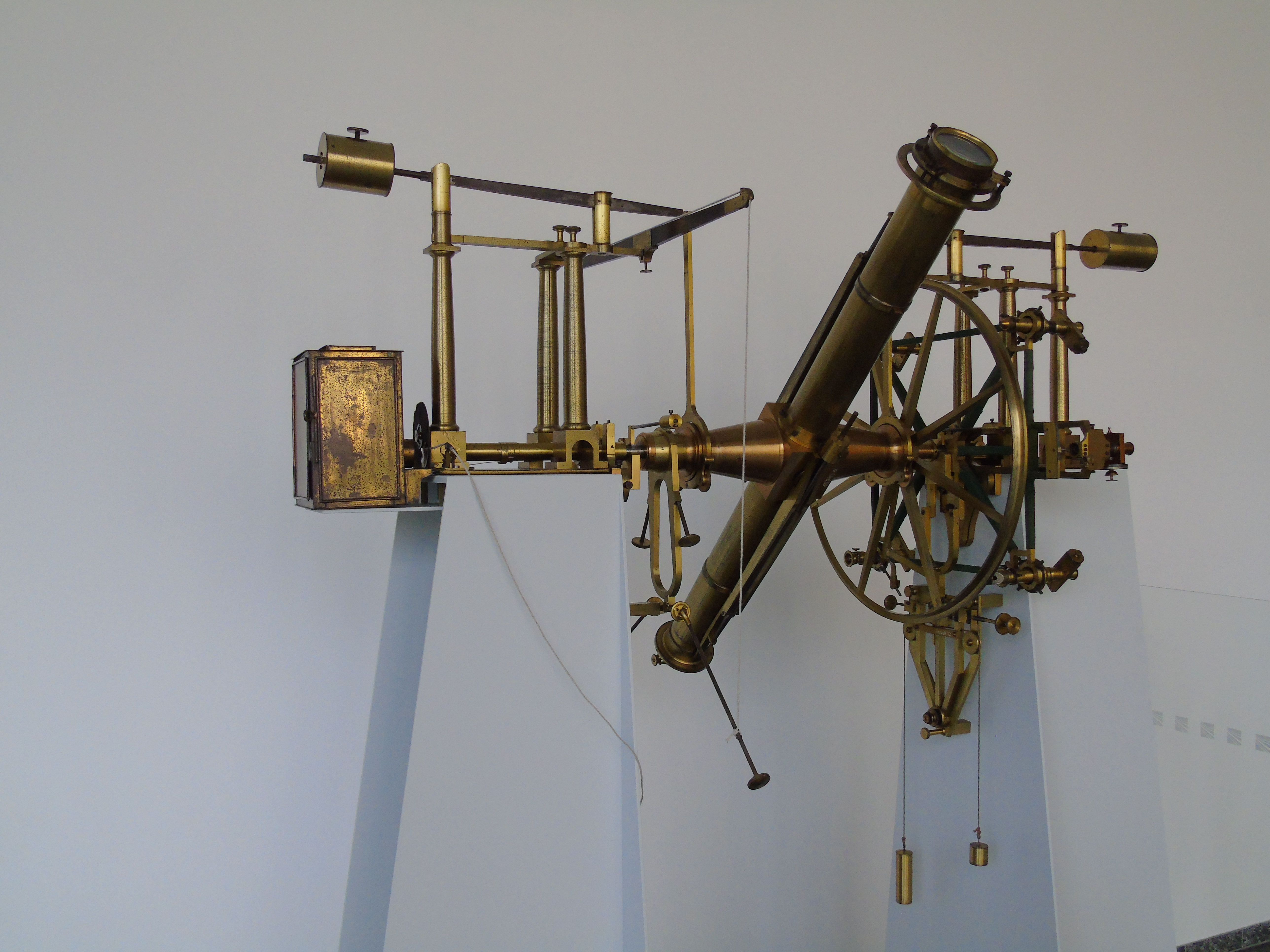 Meridian Circle, former part of the Gotha Observatory